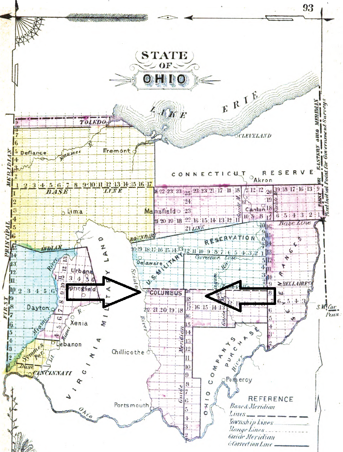 tract of land given to Canadian refugees after the revolutionary war, in Ohio called the Refugee Tracts